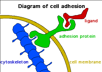 Diagram for cell adhesion. Created with ClarisDraw and Adobe Photoshop by JWSchmidt.